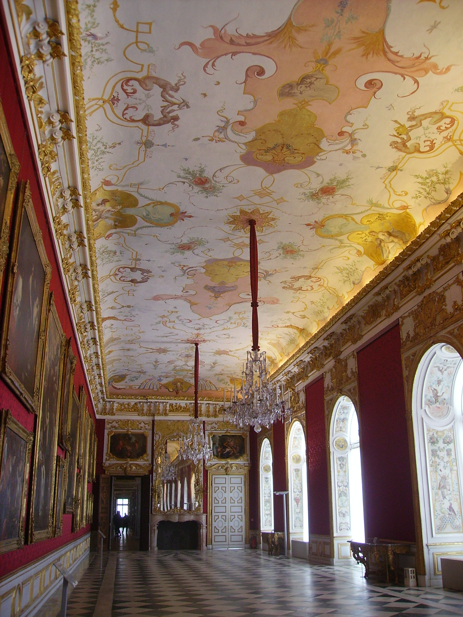 Great Gallery of the New Schleißheim Palace, Oberschleißheim